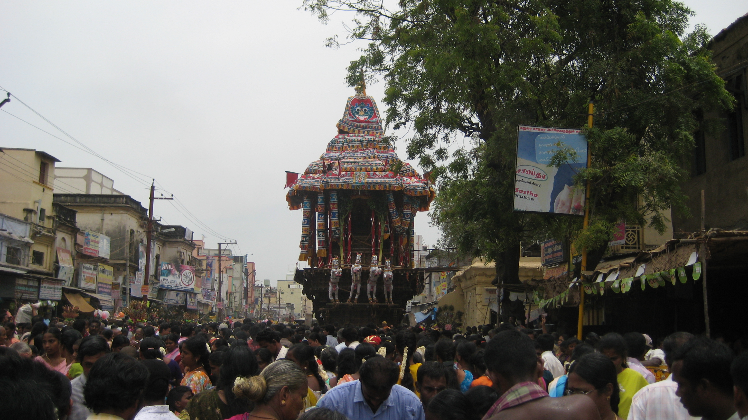 TherTiruvizha (car festival) at Madurai is a part of Chitirai Tiruvizha